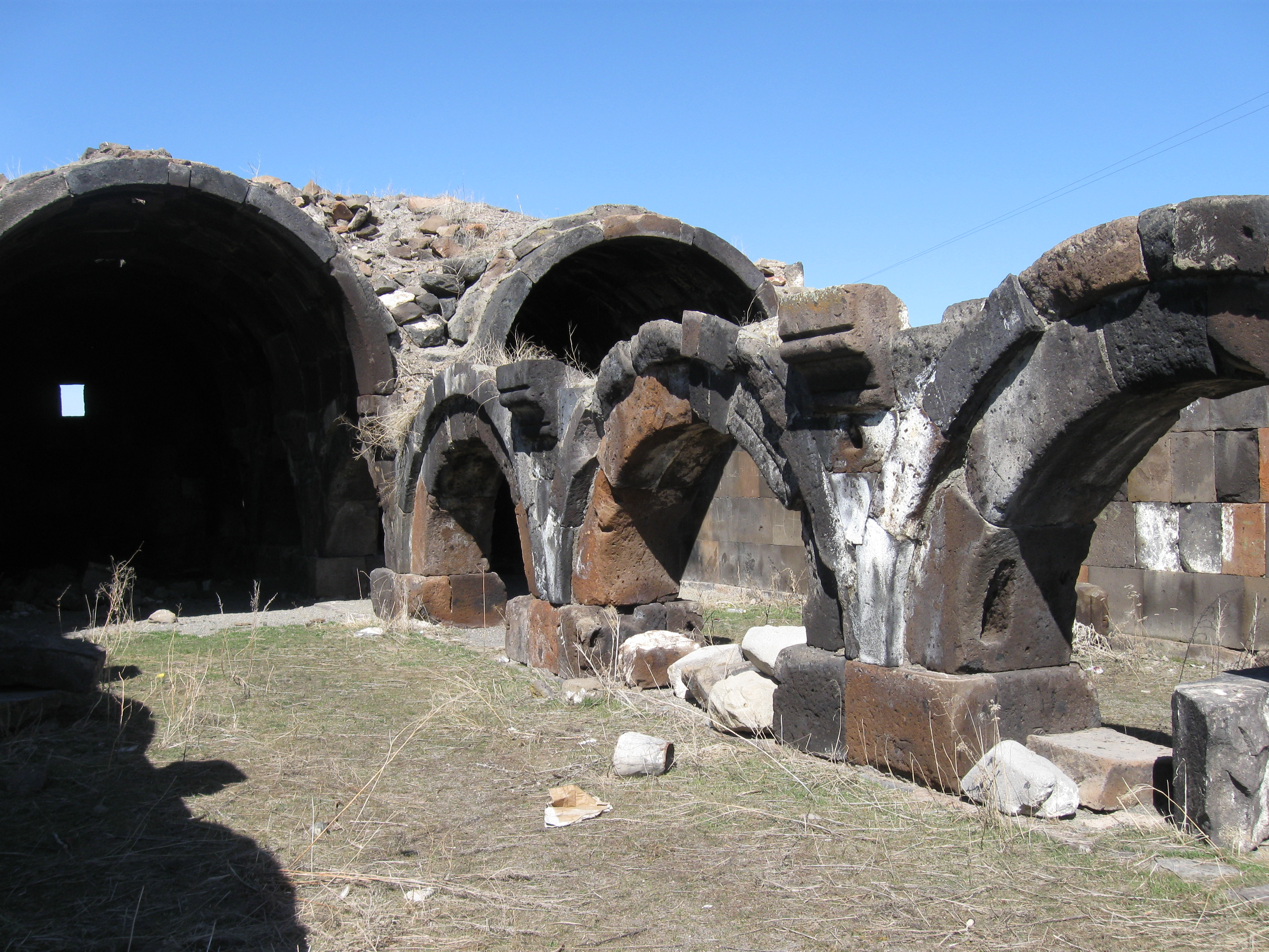 Ջրափիի քարավանատունը 98/7.3